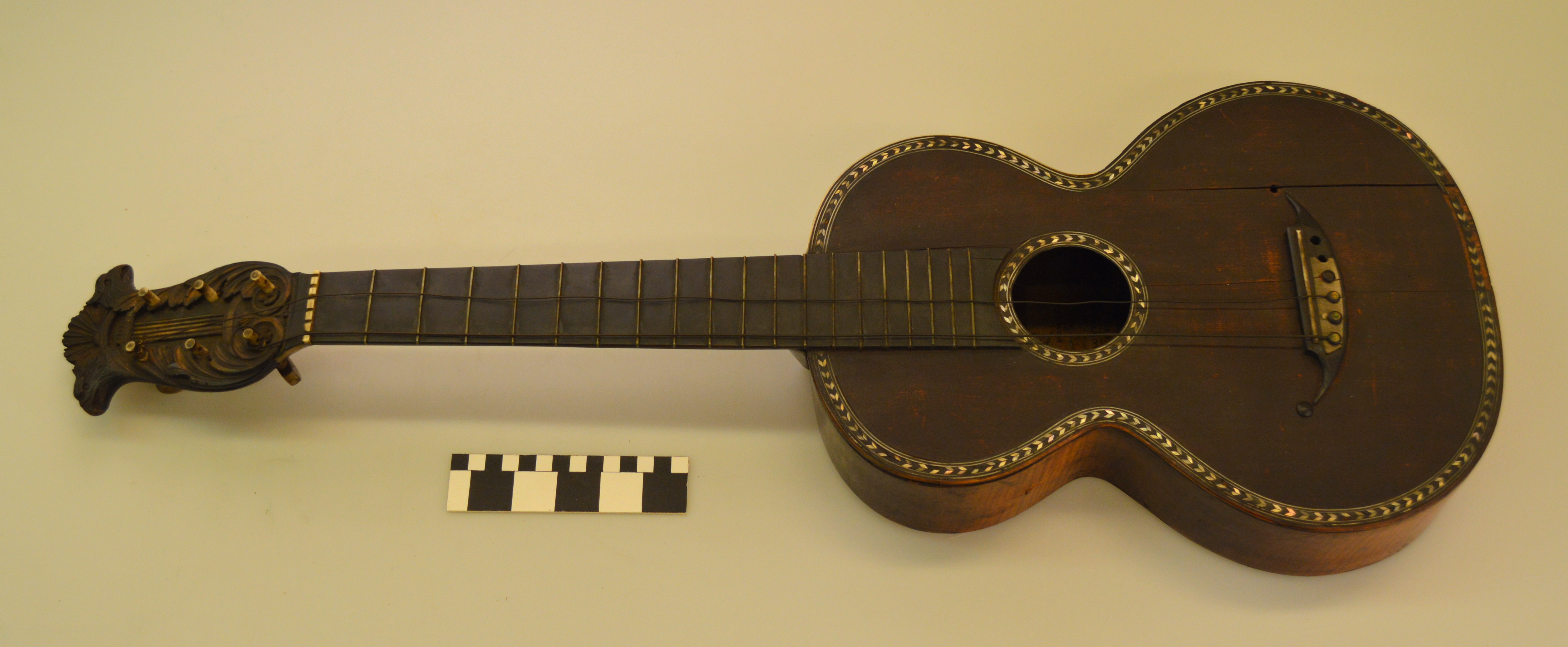 Guitar made by Charles Pommer in Philadelphia. His sons Ferdinand and Frederick William relocated to Missouri after his death and were active as musical instrument makers in Hermann and Saint Louis. Title: Guitar Made by Charles Pommer